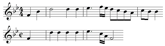 Comparison Of Two Themes In Beethoven Adelaide